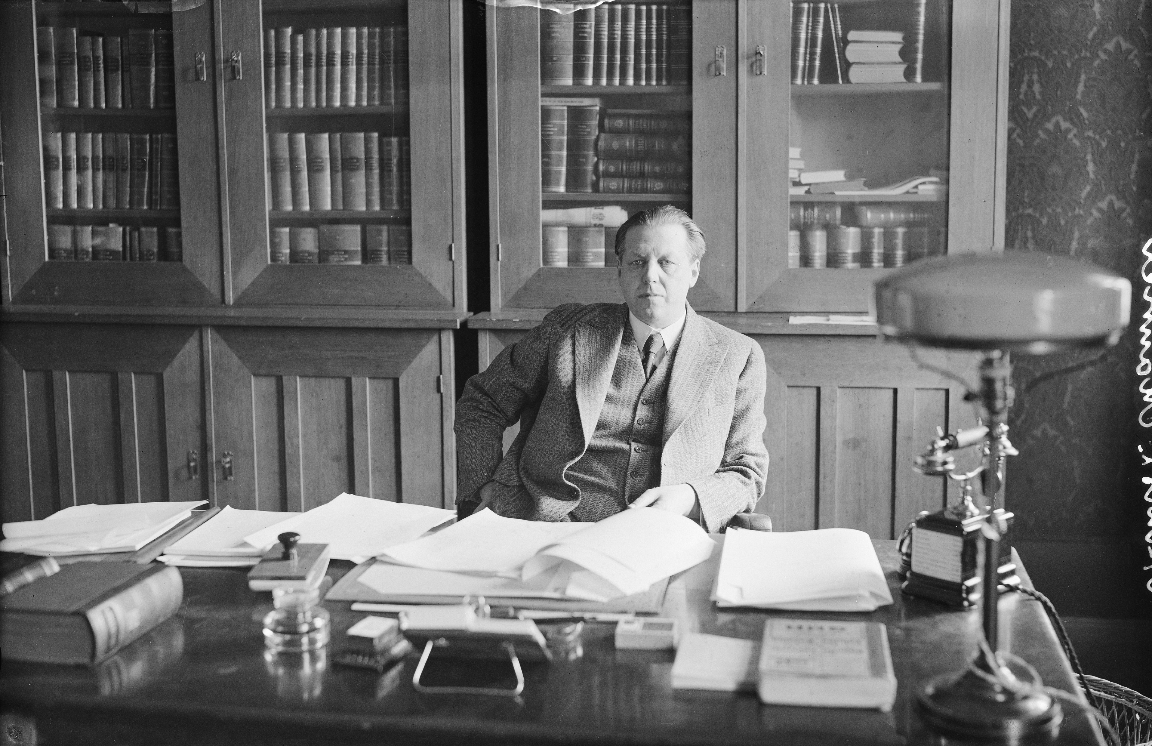 Photograph of the Finnish politician Arvo Manner (1887–1962).